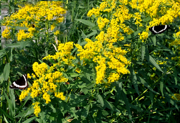 Summer's end is announced by the goldenrod, which is one of the last flowers to bloom in the season. Canadian goldenrod (Solidago canadensis) blooms from August through to the first killing frosts in September or October. It grows in colonies which may exceed 100 years of age, and though it is often blamed by hay-fever sufferers for their misery, the fact is its pollen is far too heavy to be carried any distance by the wind; most allergy problems are produced by ragweed, which blooms at about the same time. This photo shows how attractive this species is to White Admiral butterflies. Ø2004 D. Windrim Captioned As { }